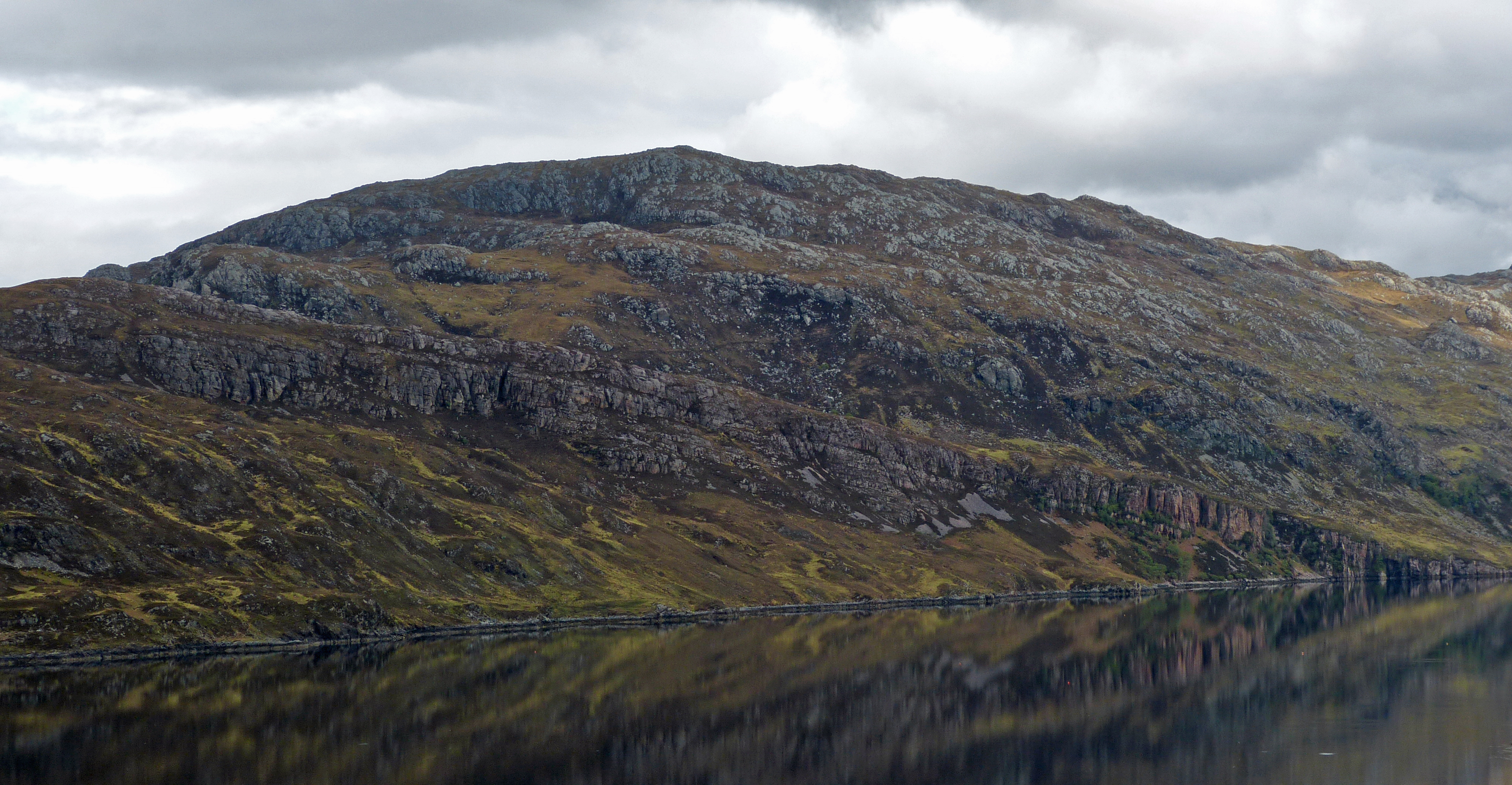 The Glencoul Thrust fault zone at Loch Glencoul near Kylesku in the Northern Highland of Scotland, Irish-Scottish Caledonides, viewed from the south-west. Precambrian gneiss has been pushed along the thrust fault and now lies above younger Cambrian quartzite (including the so-called pipe rock) and siltstone (Fucoid beds, outcrop hardly visible in the image due to viewing angle), which in turn are underlain by Precambrian gneiss, however not with tectonic but with unconformable stratigraphic contact.